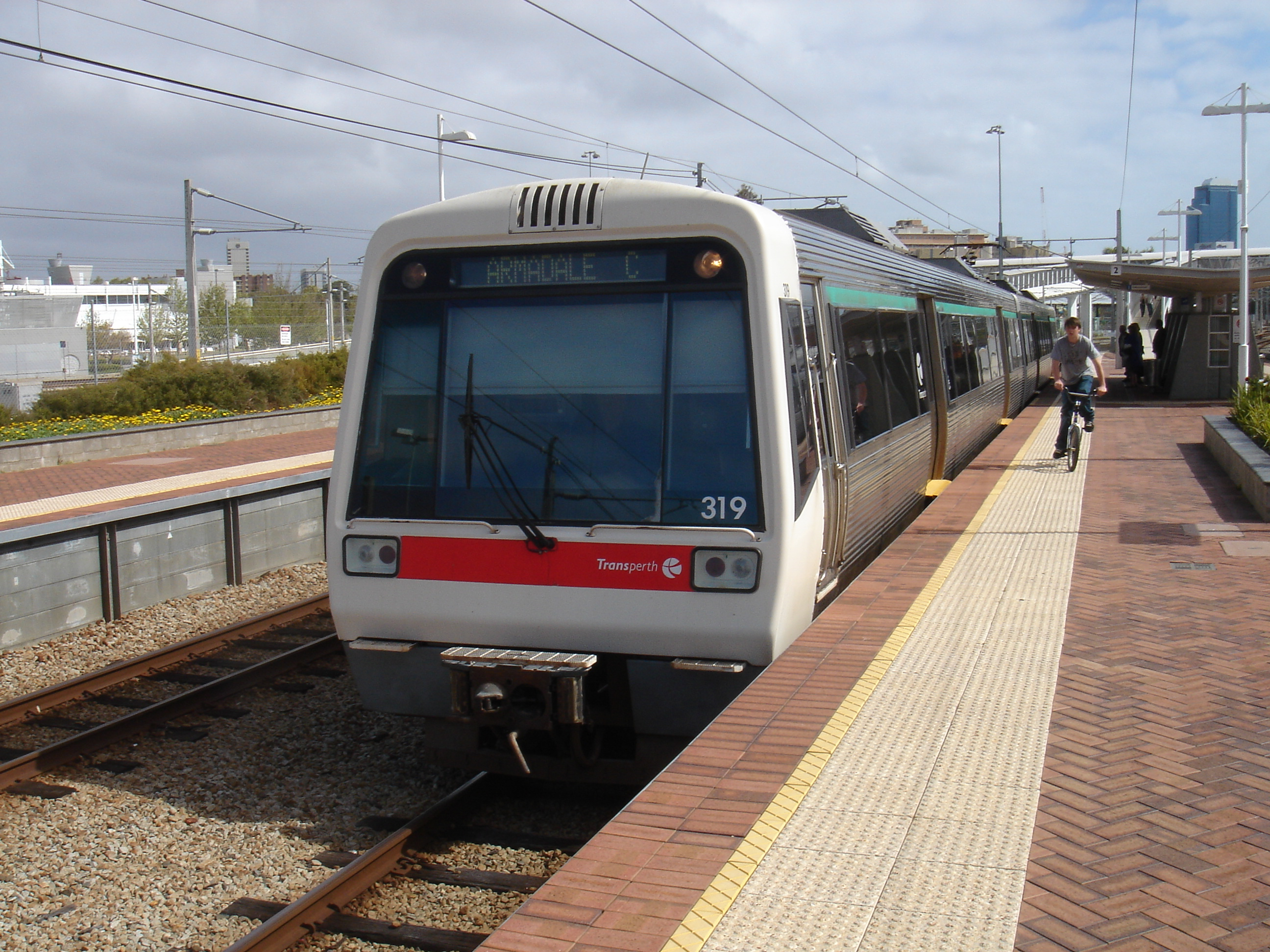 Transperth Trains Series A (1st Generation) EMU, front view at Claisebrook.